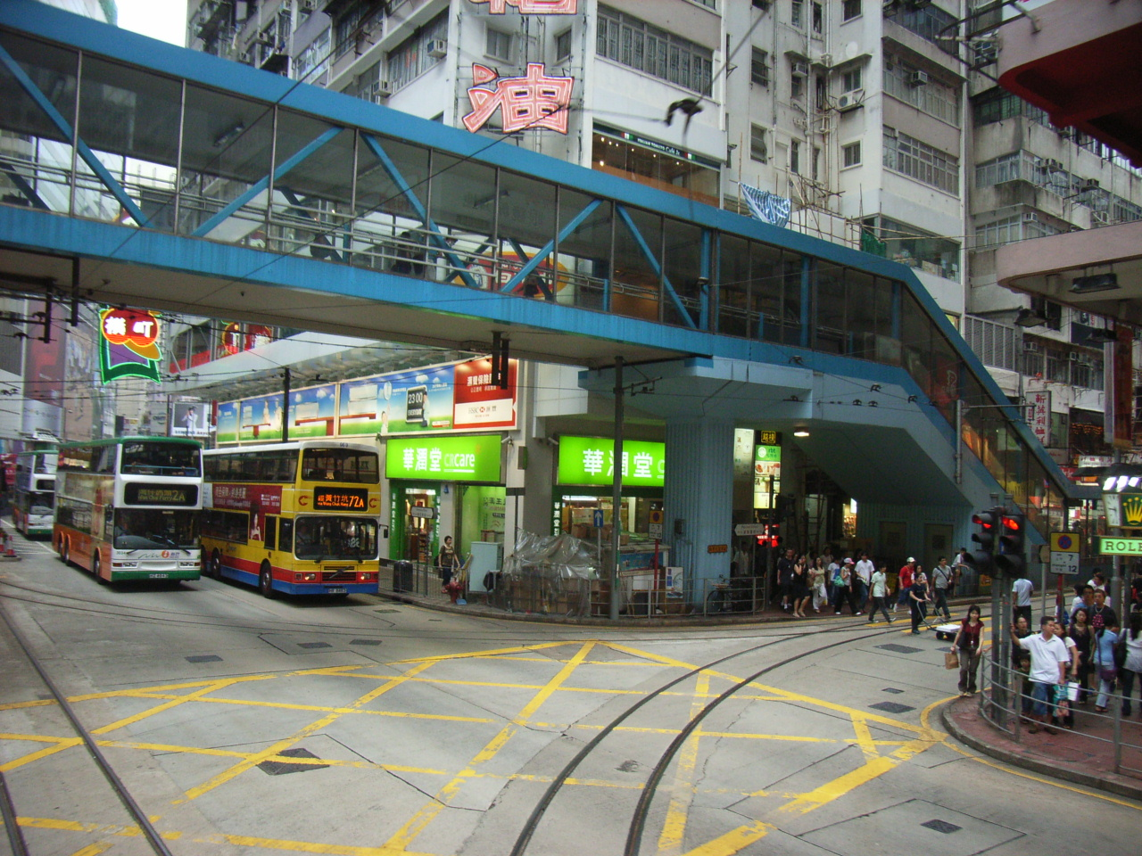 Percival Street (波斯富街) & bridge in Causeway Bay, Hong Kong. Photographer: MSUCWB